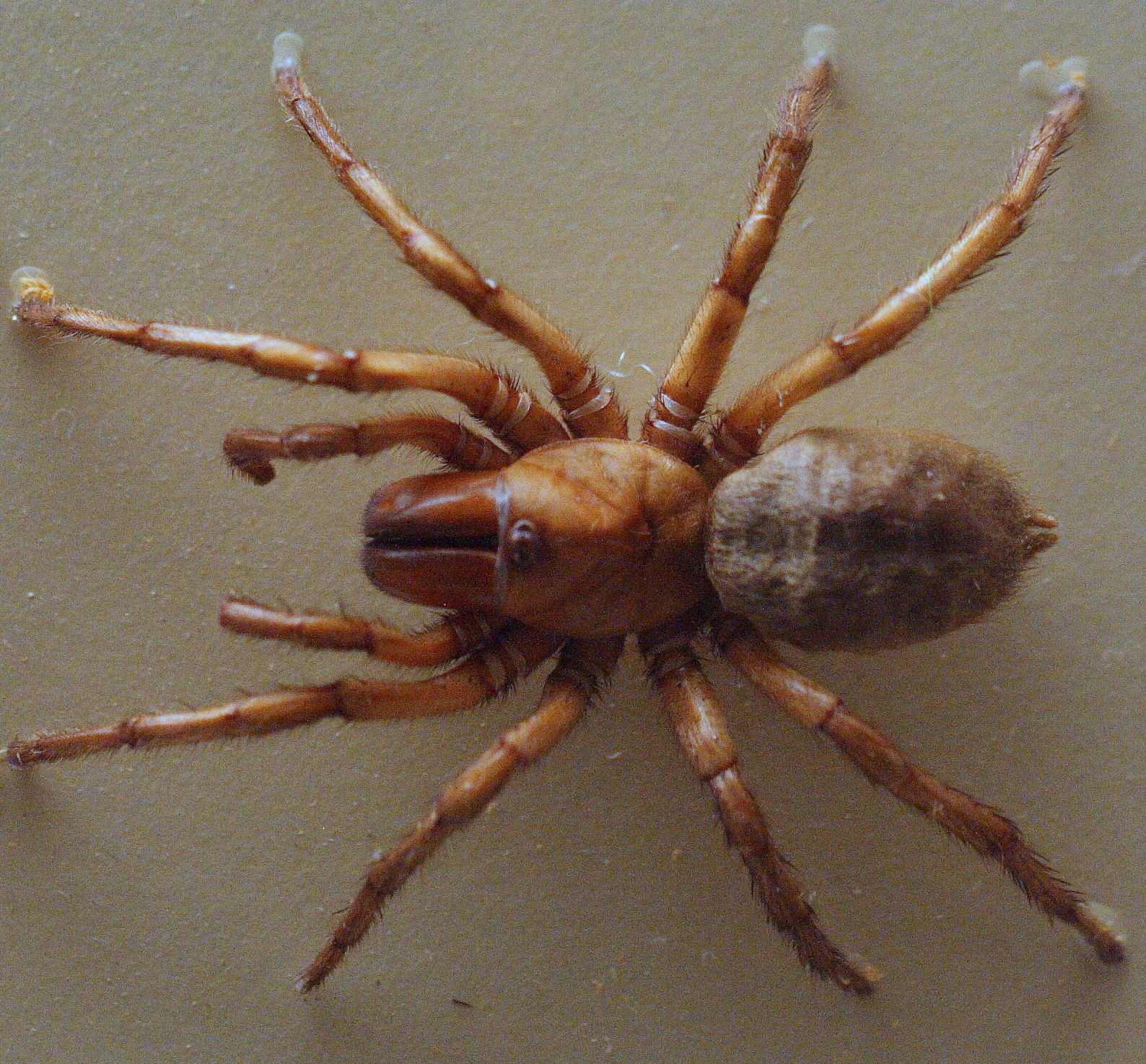 Specimen in the Australian Museum spider display.